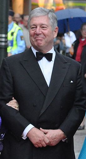 Wedding of Victoria, Crown Princess of Sweden, and Daniel Westling; Arrival of members for the Gouvernment and Swedish and foreign guests of hounour to the Riksdag's Gala Performance at Konserthuset